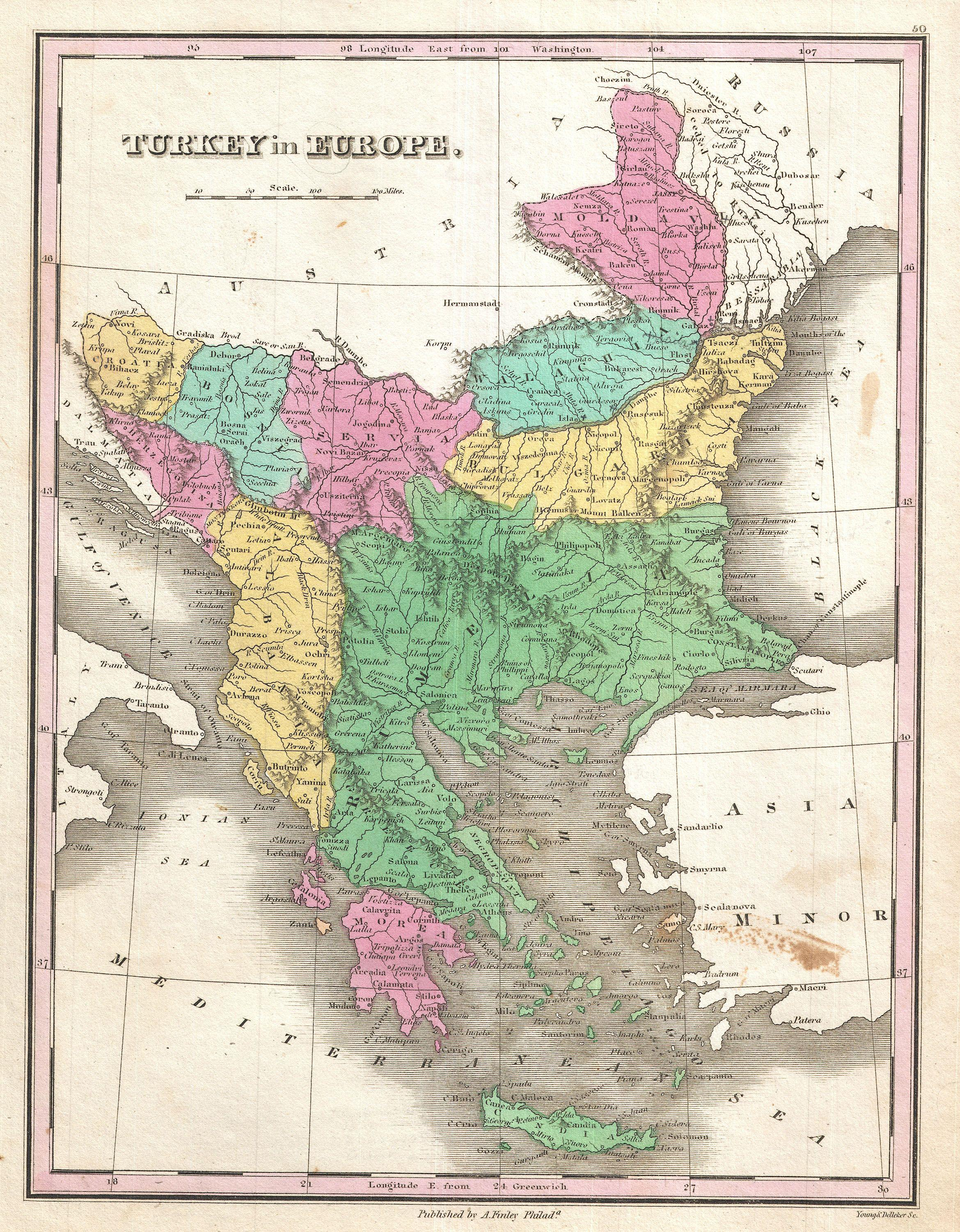 A beautiful example of Finley's rare 1827 map of Turkey in Europe. Covers the European lands claimed by the Ottoman Empire in the early 19th century. This includes the modern day nations of Turkey, Greece, Macedonia, Albania, Croatia, Bosnia, Serbia, Montenegro, Bulgaria, Romania and Moldova. In Finley's classic minimalist style, this map identifies cities, forests, river systems, swamps and mountains. Color coded according to regional political boundaries. Title and scale in upper left quadrant. Engraved by Young and Delleker for the 1827 edition of Anthony Finley's General Atlas .